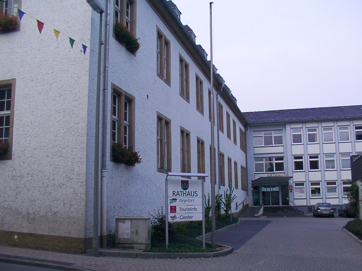 Büren (Westfalen): town hall.